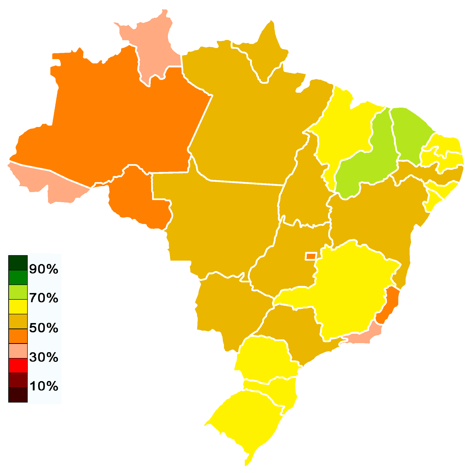 Percentage of Catholics in Brazil by state.